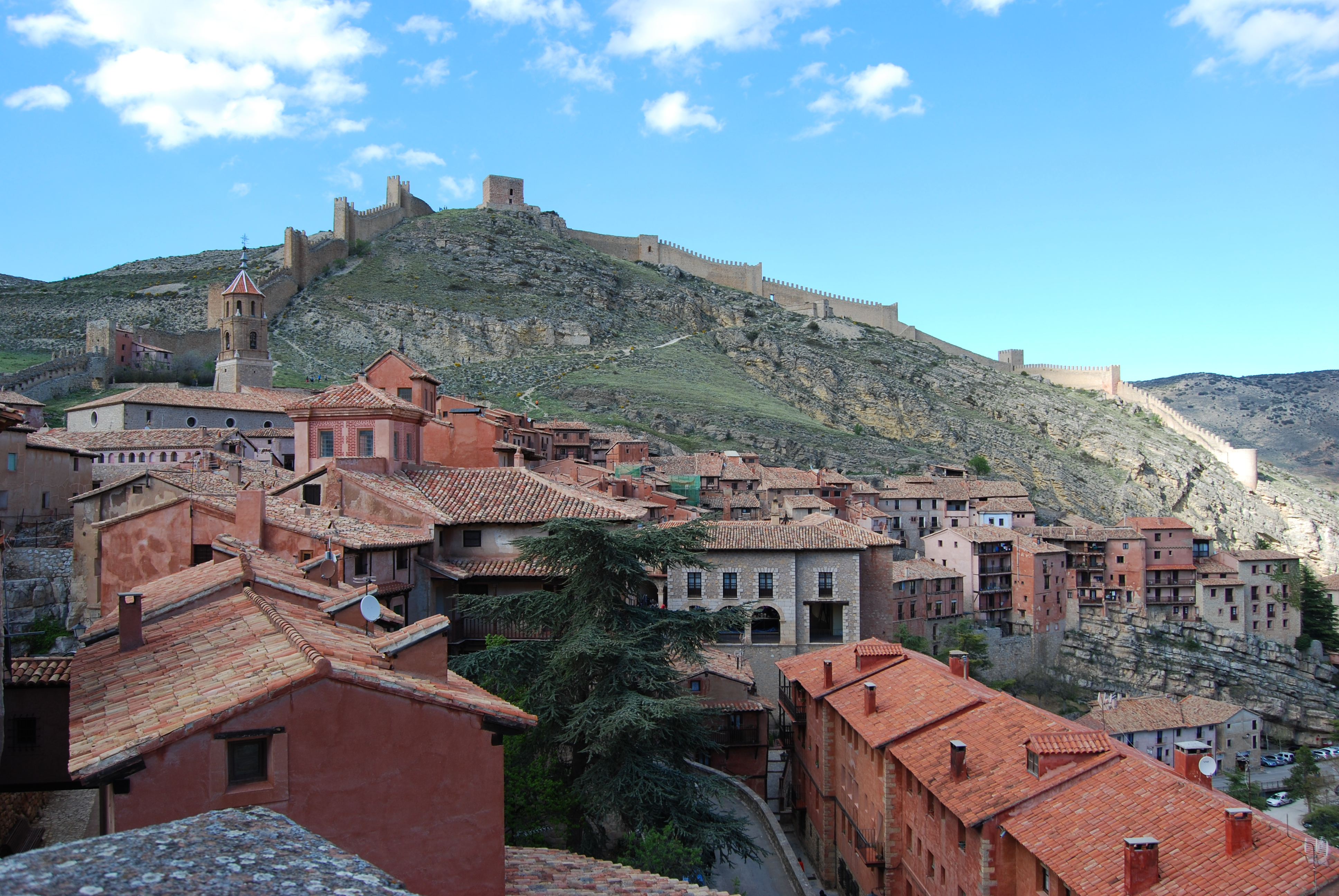 Northern part of Albarracín, Torre del Andador and Northern walls, viewed from the belvedere near the cathedral